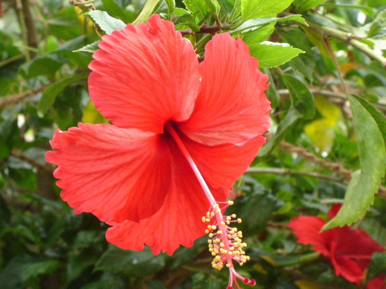 Red Hibiscus 'Psyche' in Chennai (Tamil Nadu) during Spring.